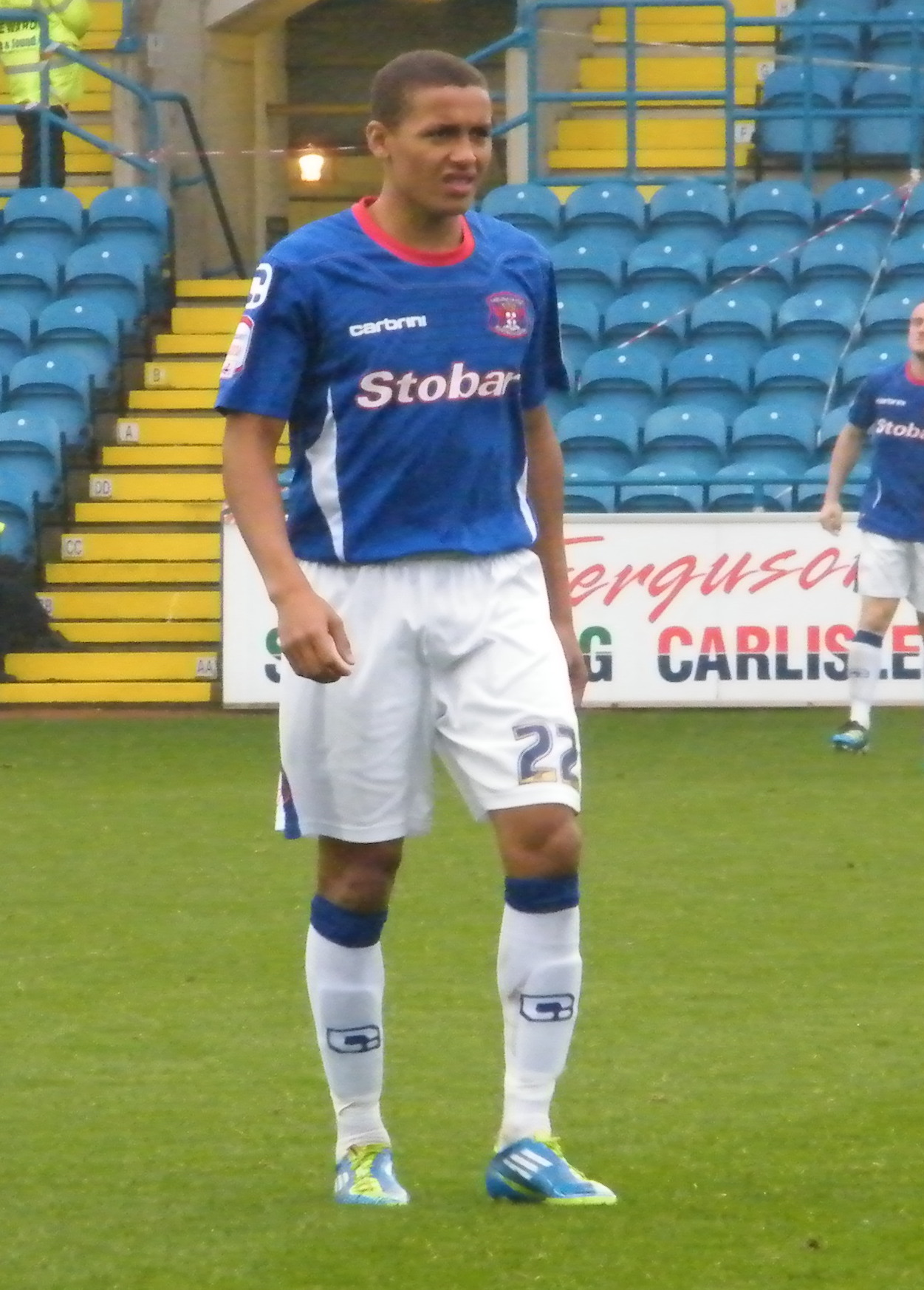 James Tavernier Carlisle V Brentford 8th October 2011